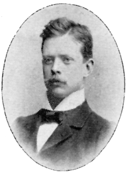 Image scanned from the book "Svenskt Porträttgalleri XX - Arkitekter, Bildhuggare, Målare m.fl. " ("Swedish Portrait Gallery XX - Architects, Sculptors, Painters, ") published 1901